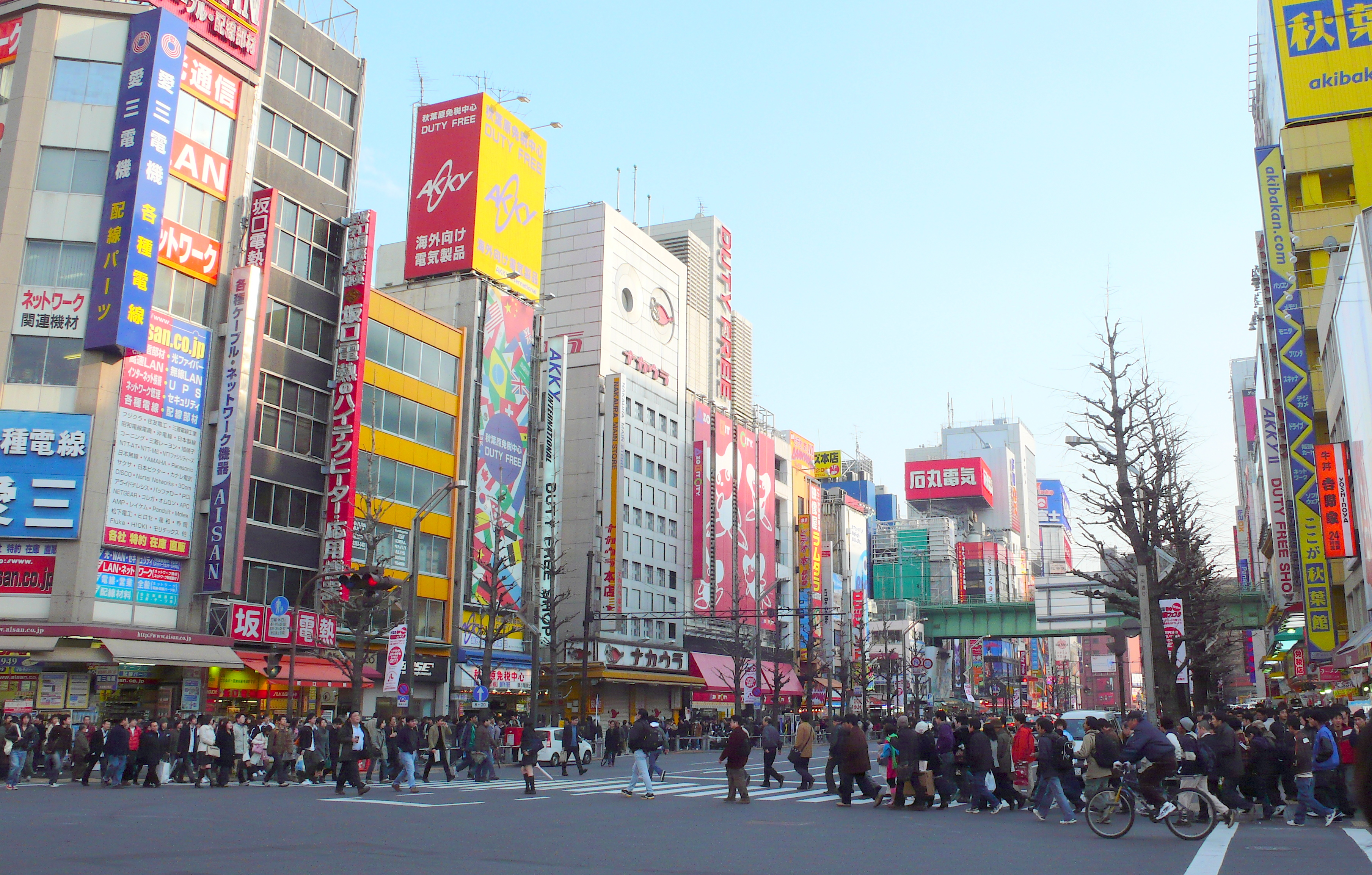 Akihabara Electric Town.